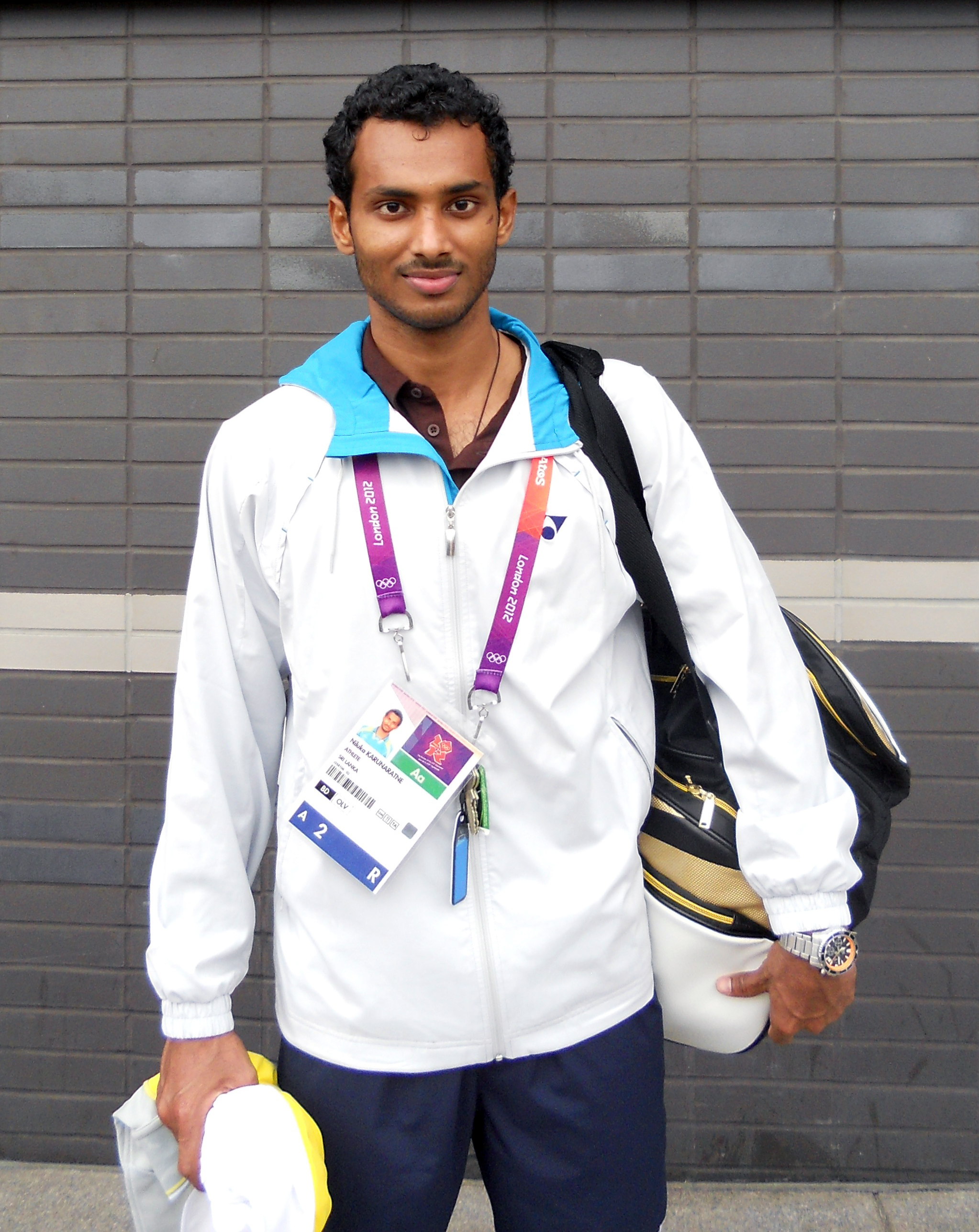 Niluka Karunaratne, Sri Lanka badminton player at the London 2012 Olympics after his defeat to India's Parupalli Kashyap in a pre-quarters match. Photographed near Wembley Arena, Wembley, London, UK.